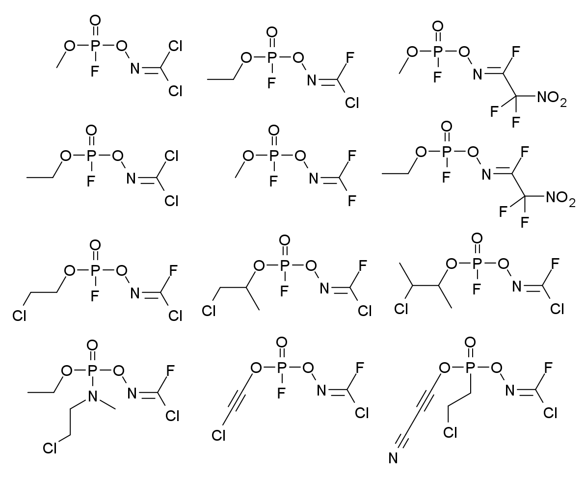 i drew this anyone can use it